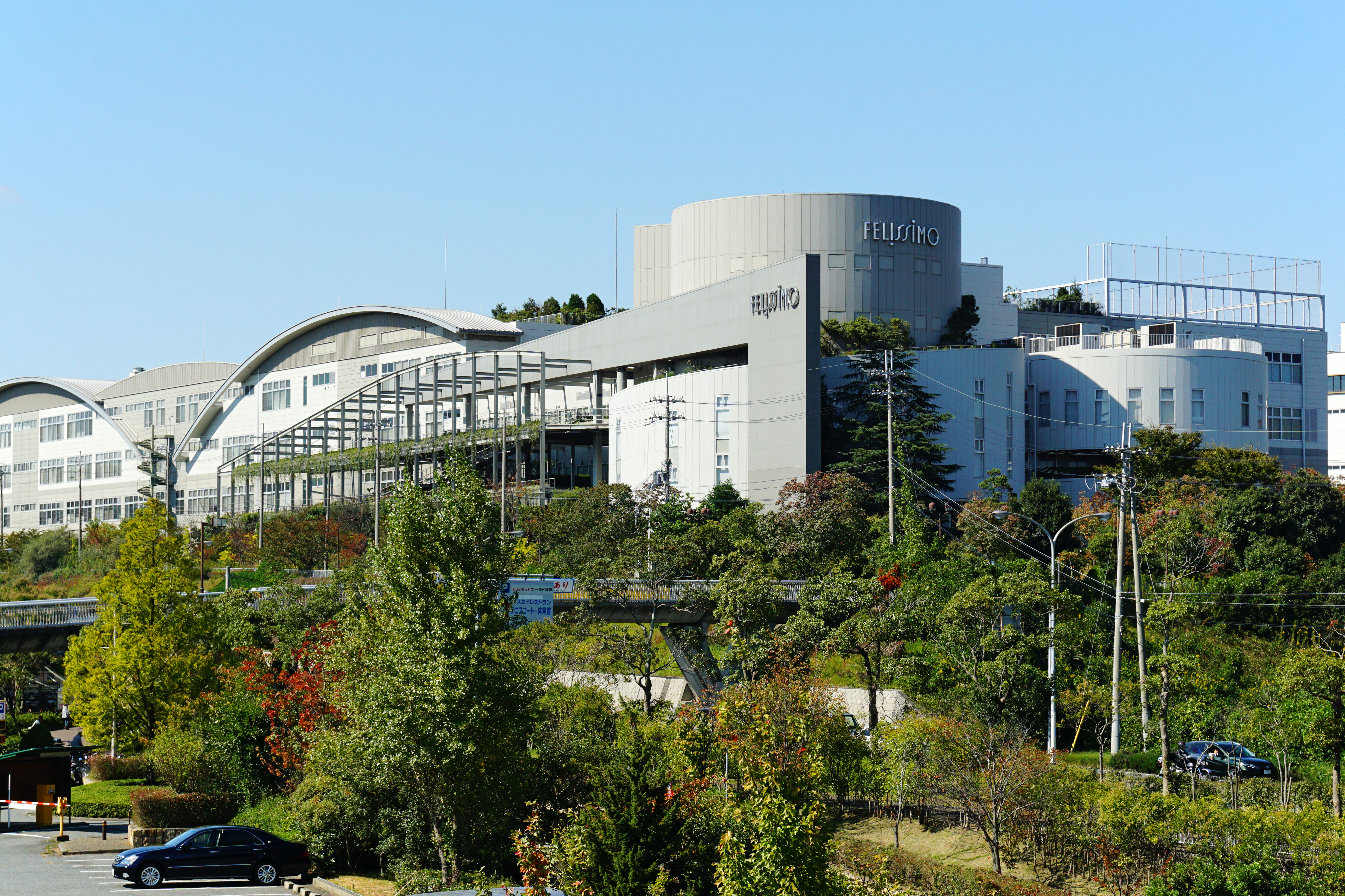 Espace_Felissimo and Felissimo_Hall in Kobe, Hyogo prefecture, Japan